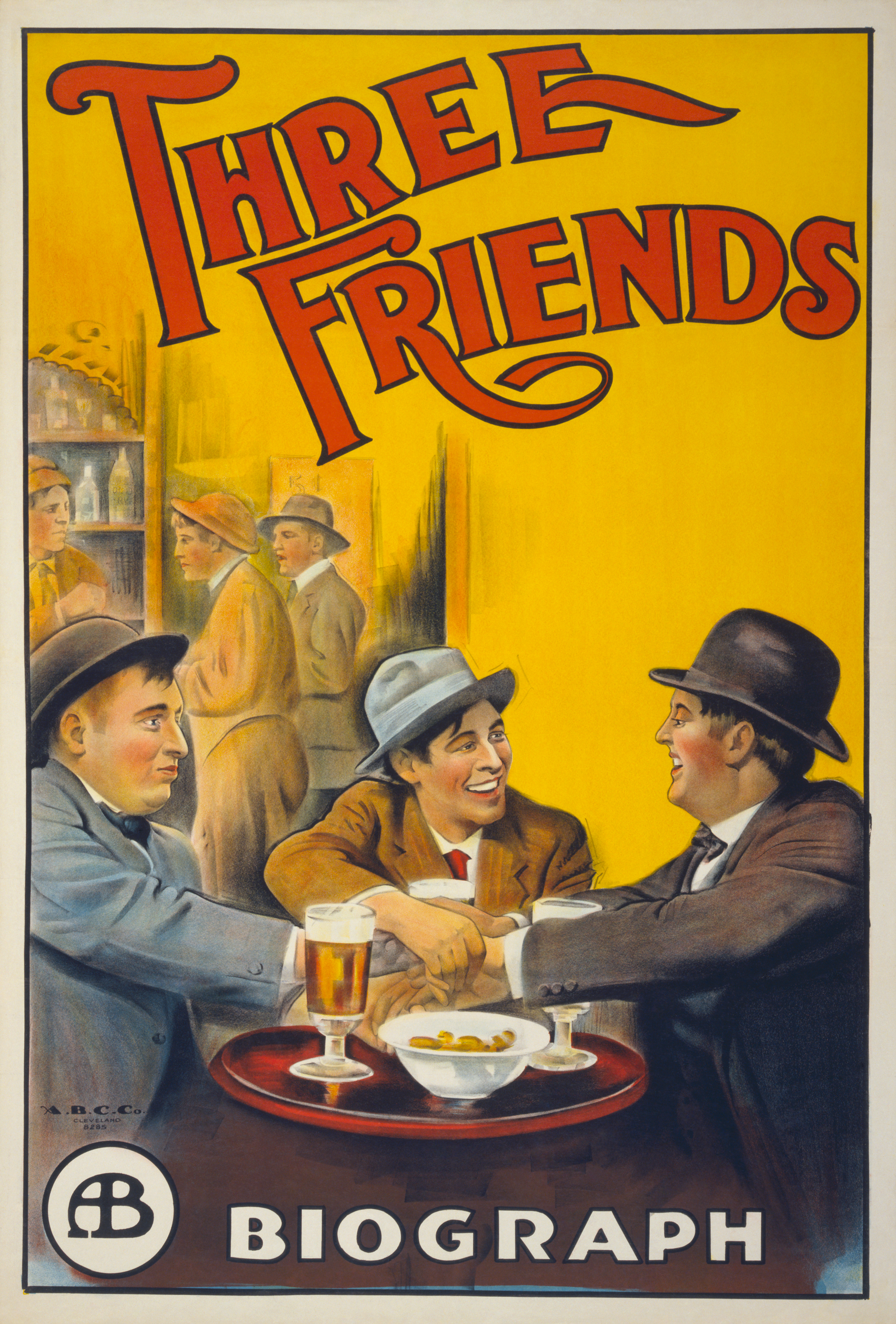 Motion picture poster for Three Friends, a Biograph Studios release, shows three men clasping hands while sitting at a table in a bar. 1 print (poster) : lithograph, color ; 104 x 70 cm.